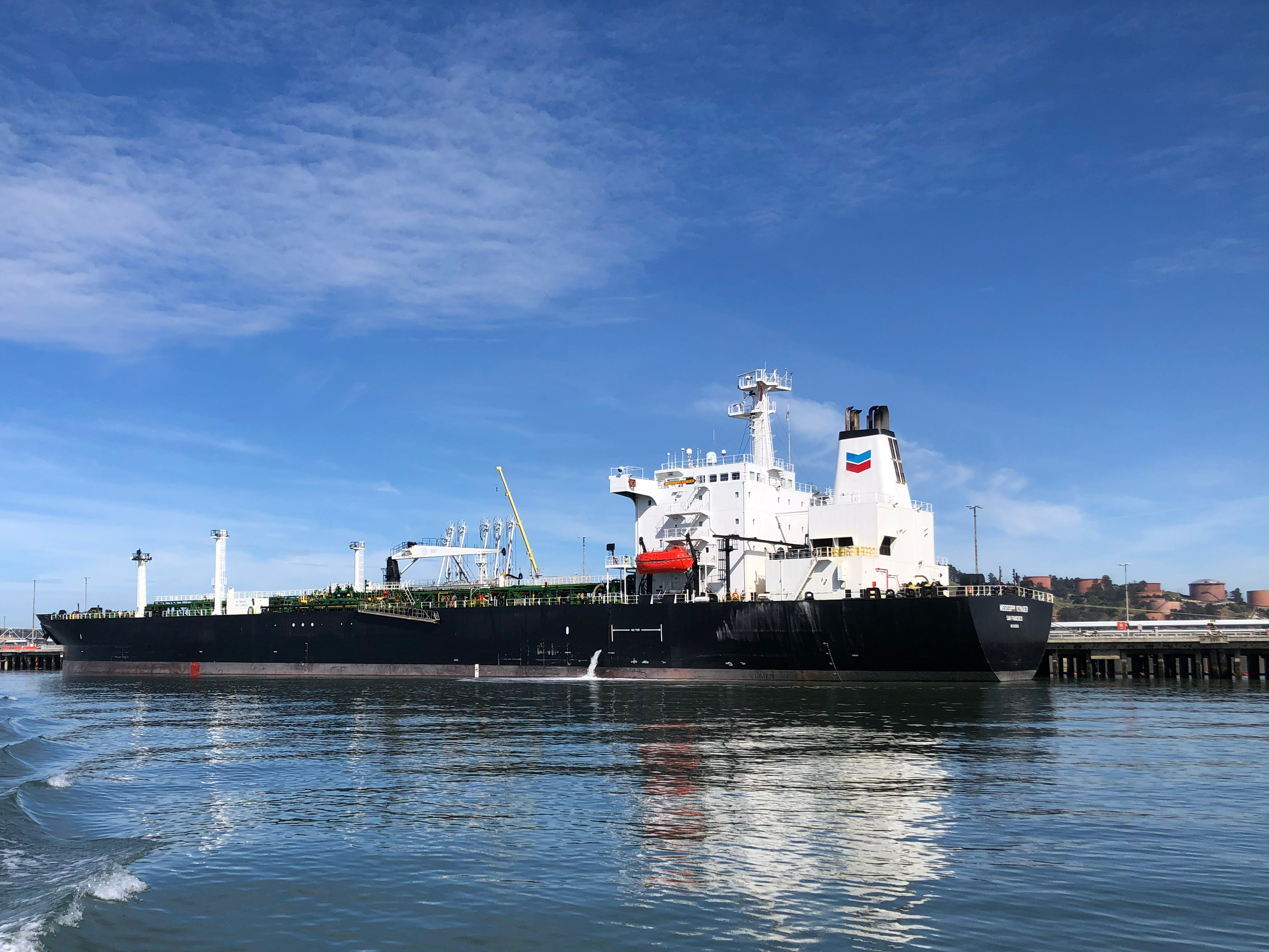 Chevron oil tanker ship (Mississippi Voyager) in Richmond, California